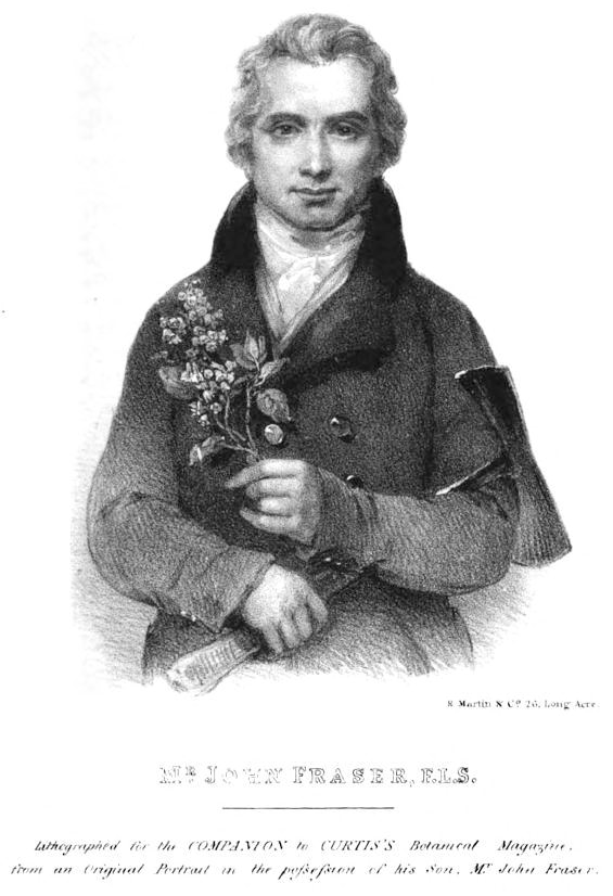 John Fraser, botanist 19th century lithograph of an 18th century portrait by Sir Henry Raeburn